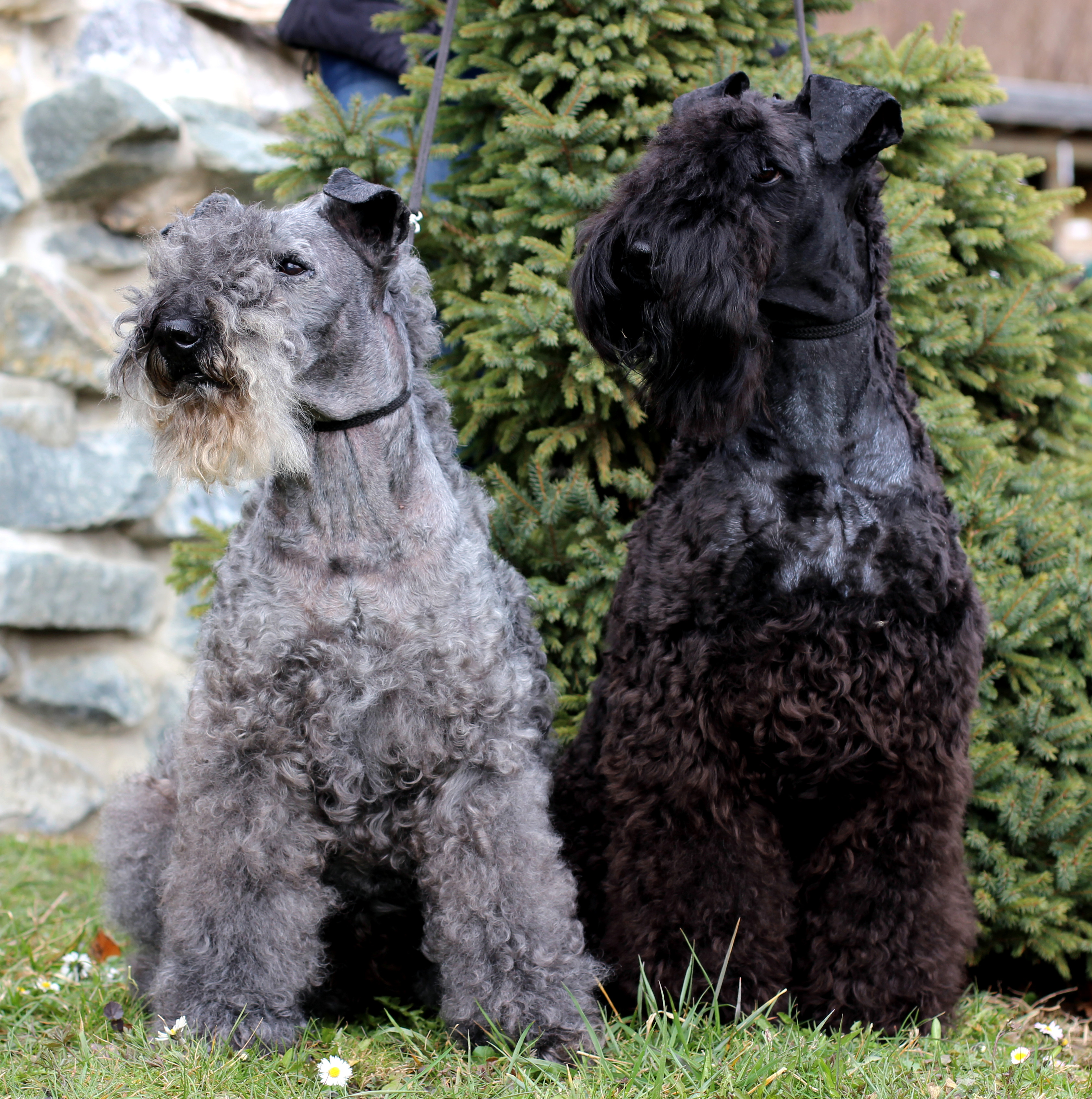 Two Kerry Blue Terrier, the left one, named Ceallach Blue Ivanhoe is on this photo about 14 years old and light grey. She have made the full color change. On the right is a about one year old Kerry Blue Terrier, called Edbrios Highlander. In this age the breed is just starting with changing the color of the coat.